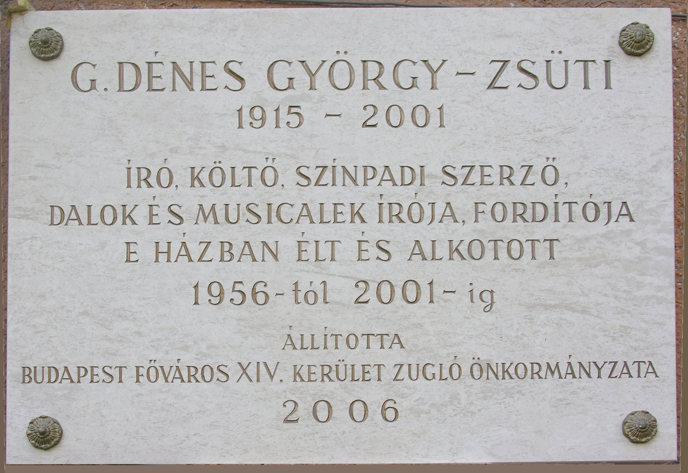 Commemorative plaque of György G. Dénes, Budapest District XIV, Columbus Street No 64